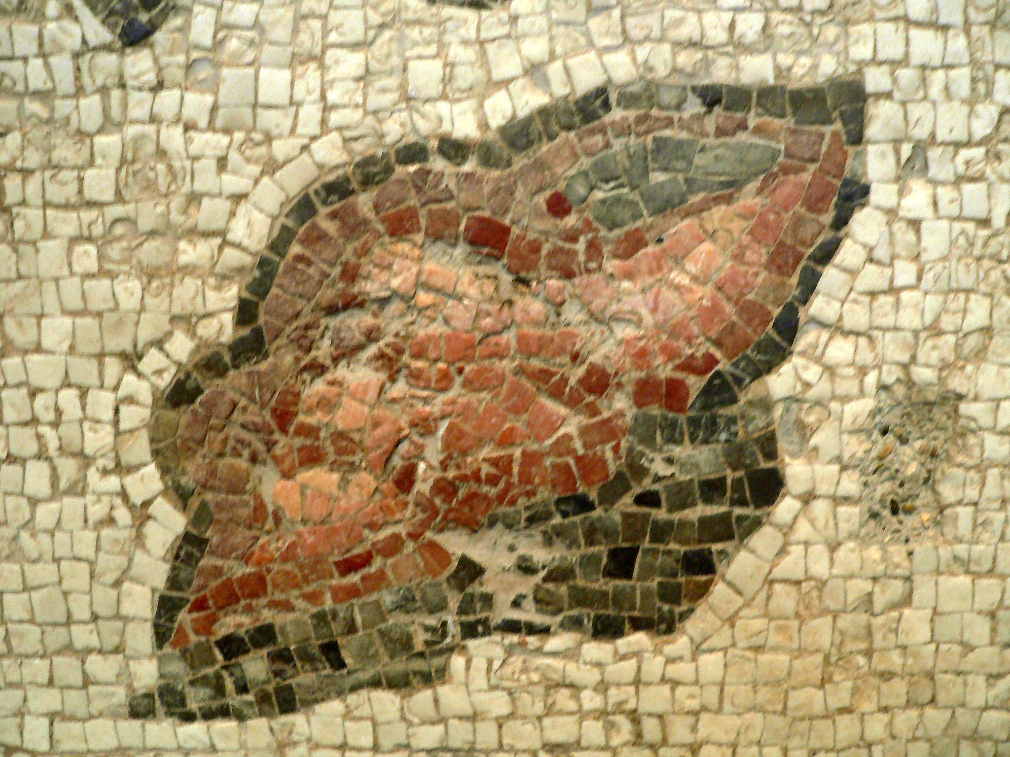 Seashell, detail from a representation of the sea full of fish. Mosaic emblema (marble and limestone), 2nd half of the 3rd century AD. From Daphne, a suburb of Antioch-on-the-Orontes (now Antakya in Turkey).